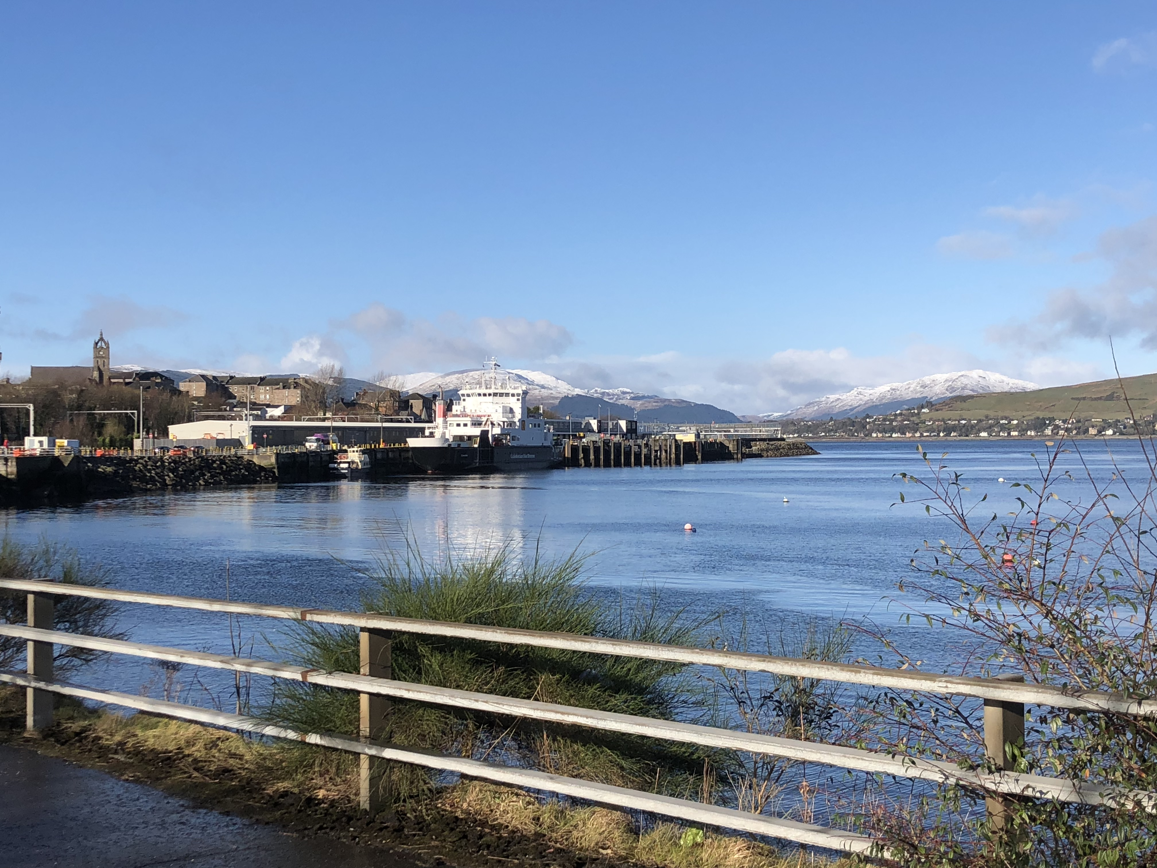 Gourock pierhead and Gourock railway station, seen from Tarbet Street with MV Coruisk at the pier. Snow on the Argyll hills.